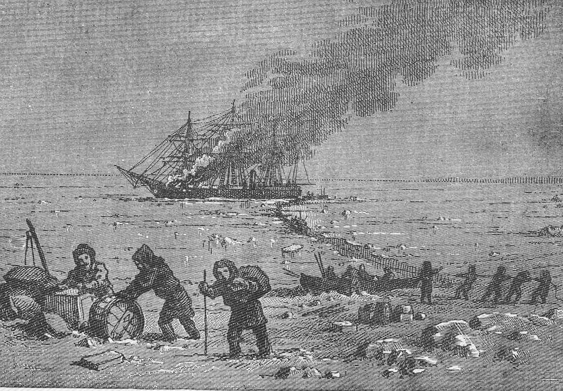 Burning of the Rodgers Subject: Rodgers (Ship), Shipwrecks, Explorers Tag: Vessels, Polar